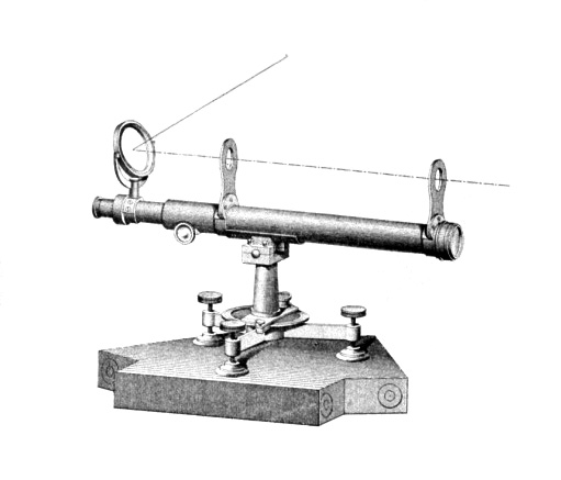 A heliotrope.